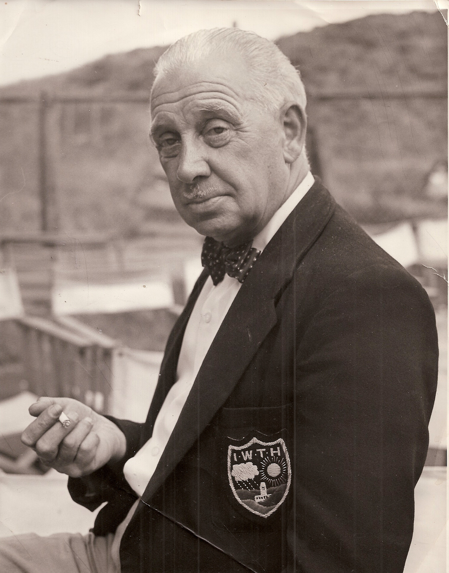 Waldini at the open air theatre at Happy Valley, Llandudno in 1959. The badge with the inscription "IWTH" signifies what happens if it rains - "If Wet, Town Hall".